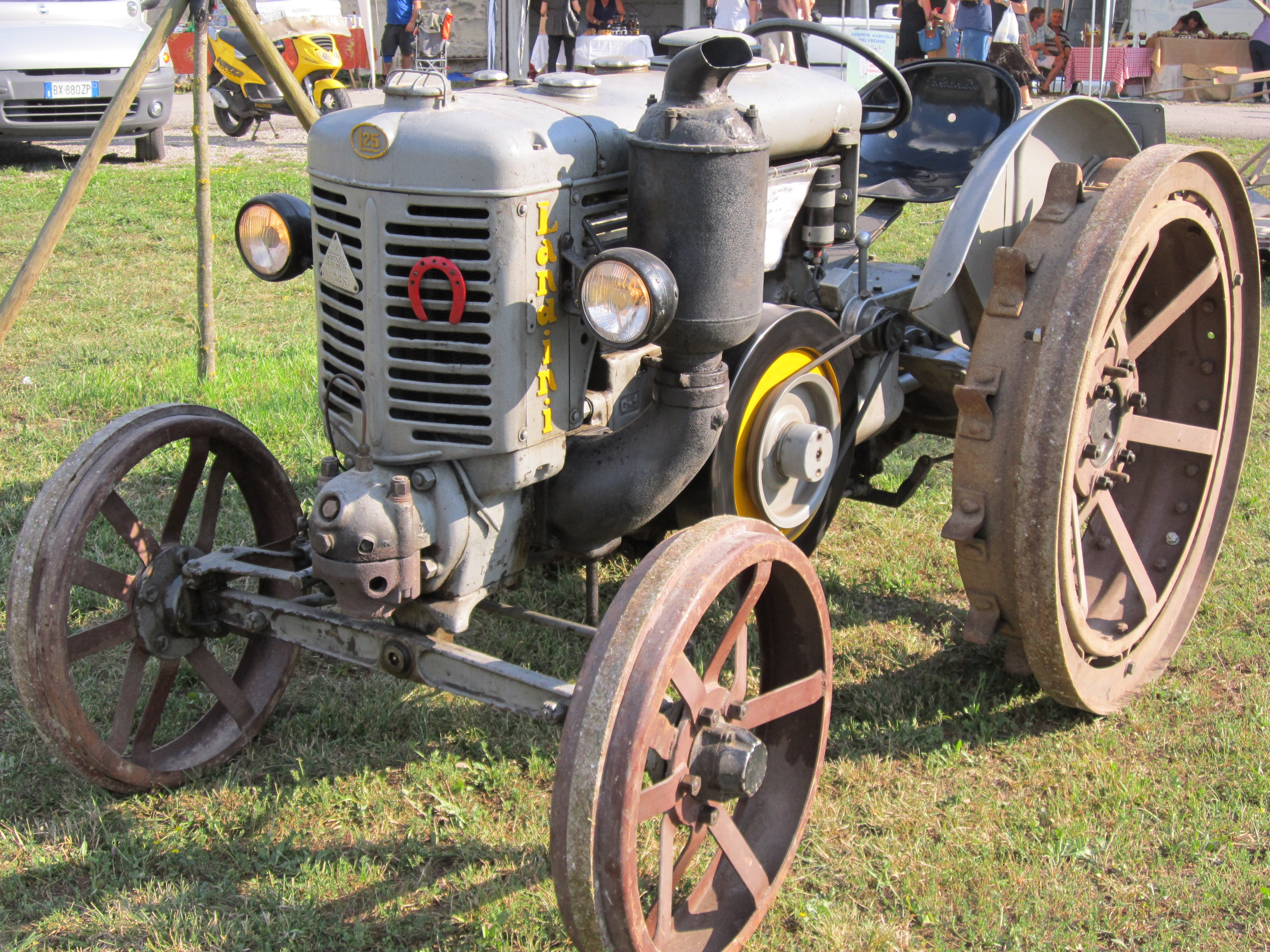 Landini L 25 tractor